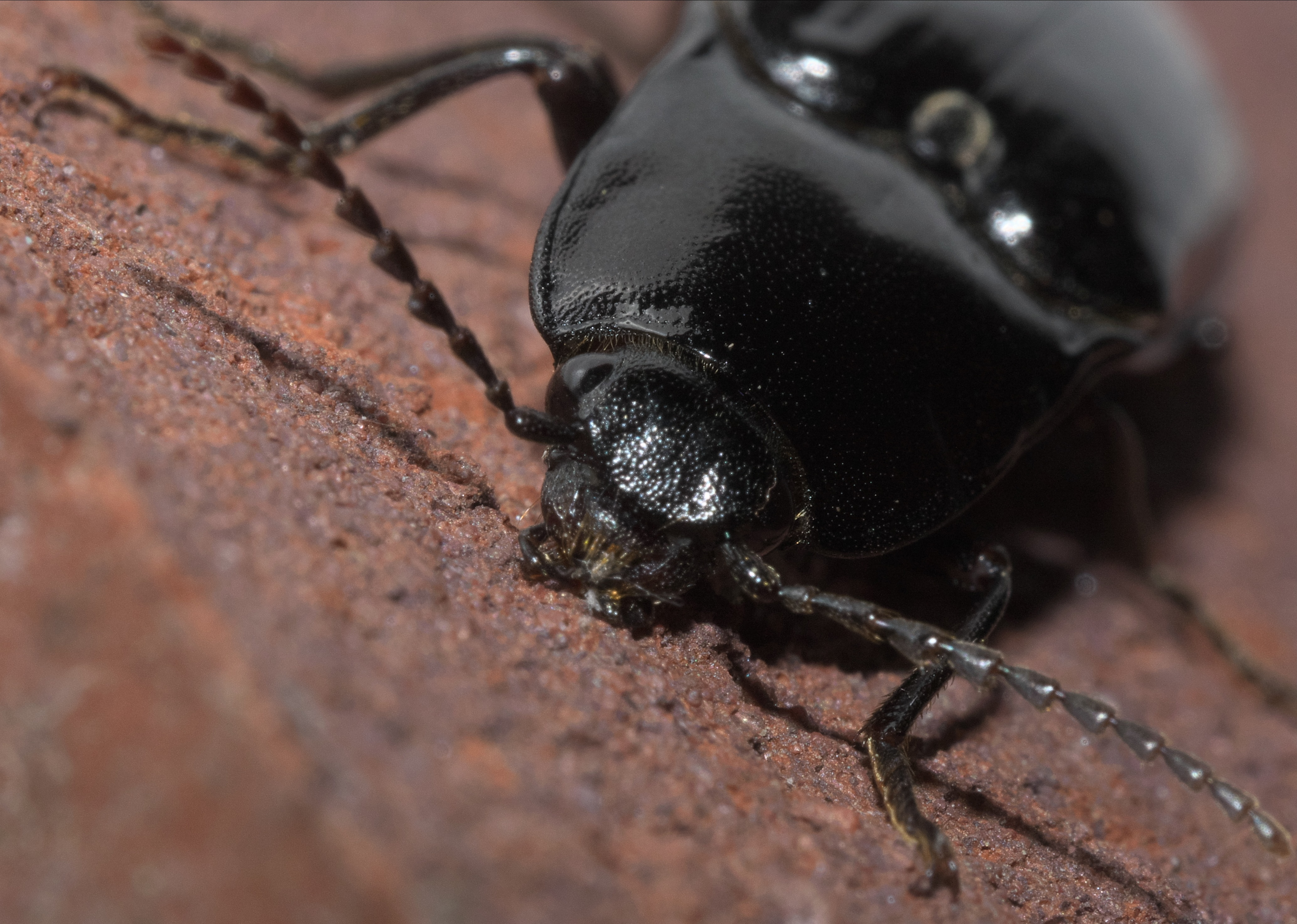 Melanactes piceus, Family: Click Beetles, ID Confidence: 98